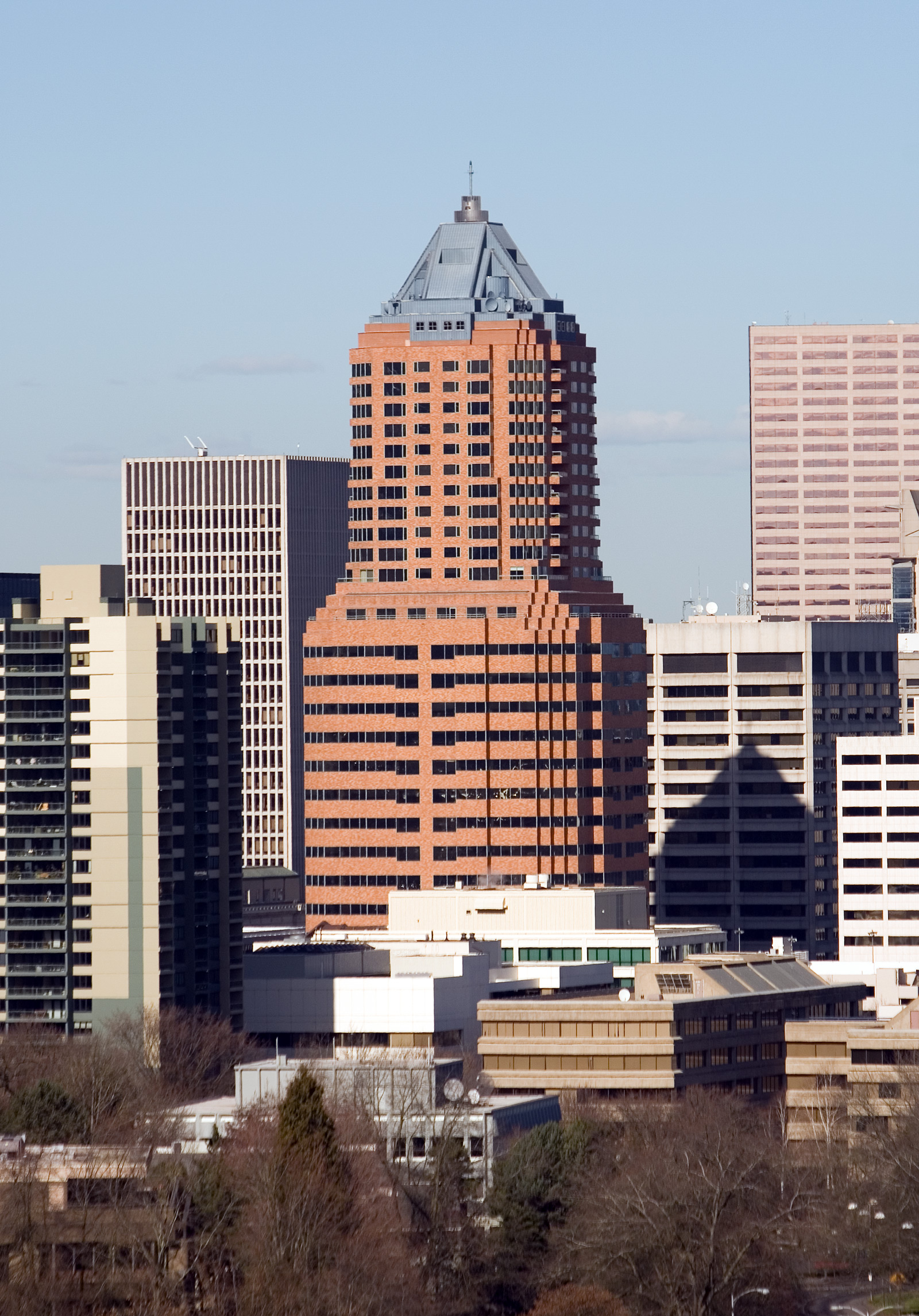 The KOIN Center in Portland, Oregon. Photo taken looking north from the Portland Aerial Tram.